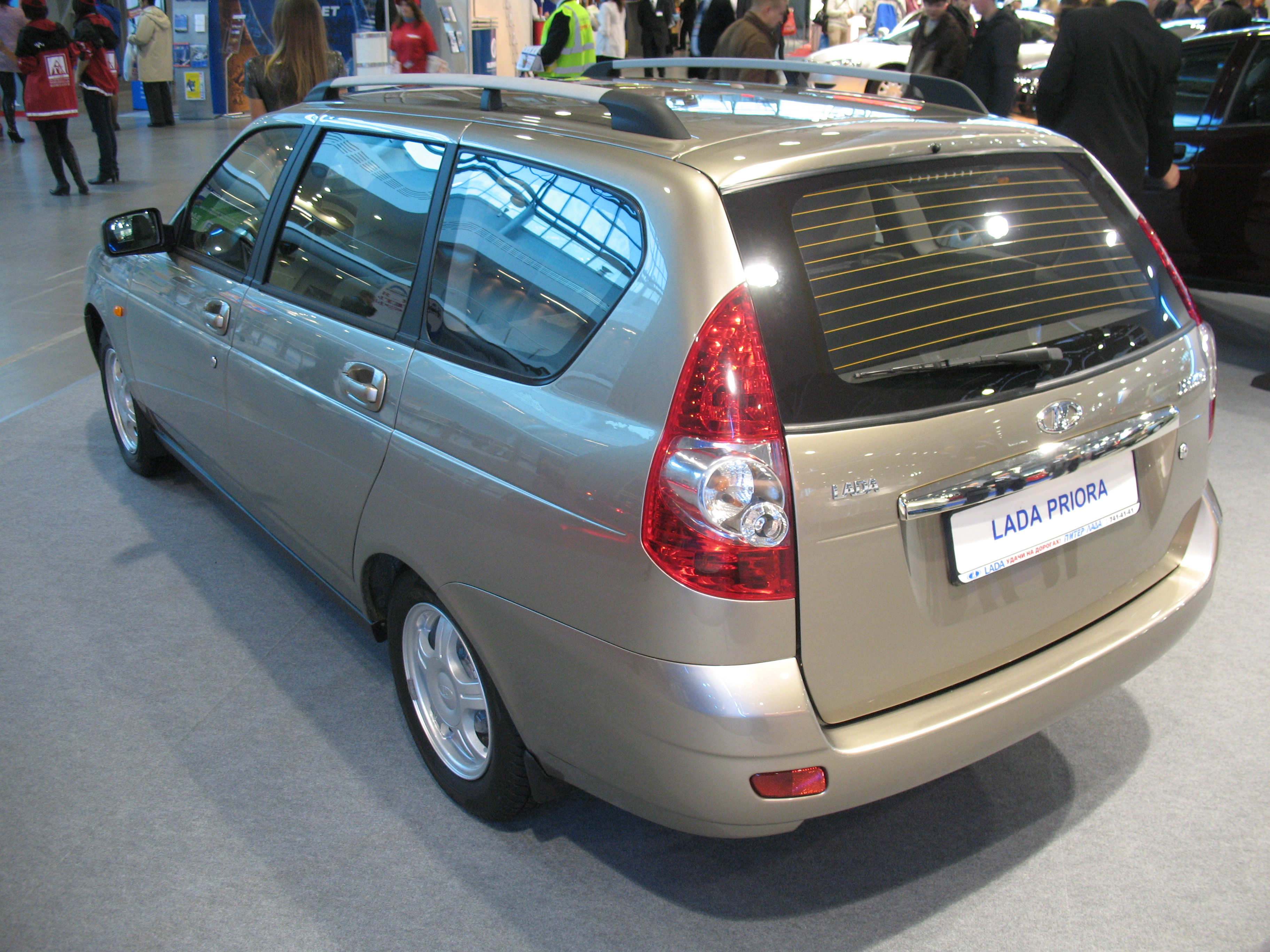 VAZ-2171_LADA_Priora_estate